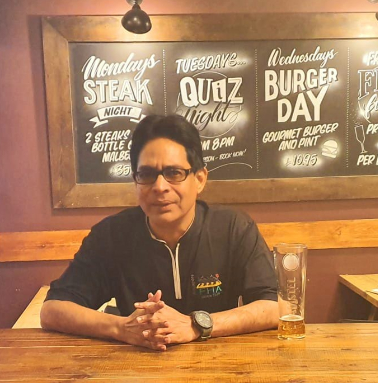 Man behind Young Chef Olympiad